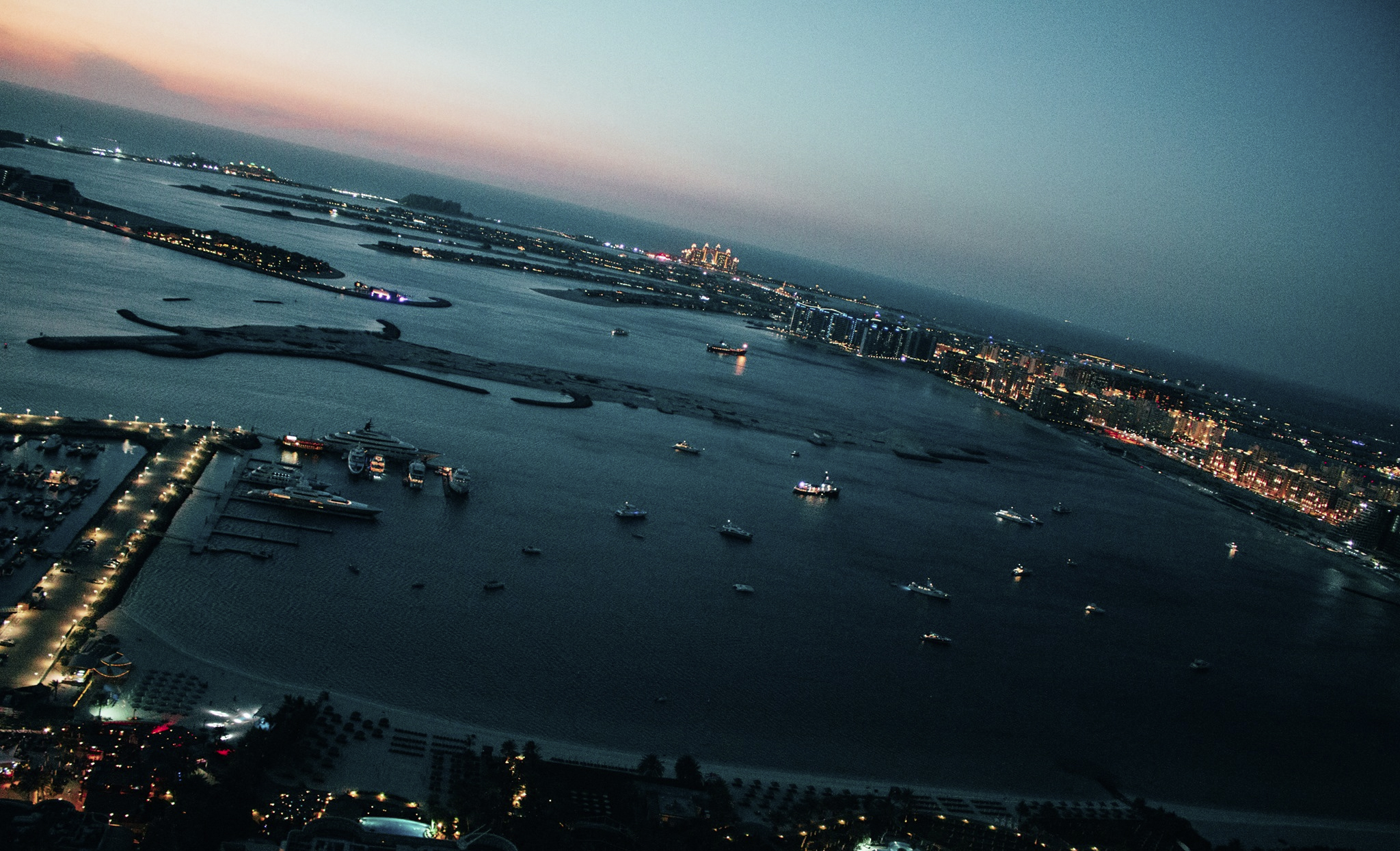 View of the Palm Jumeirah, Dubai, early March 2015